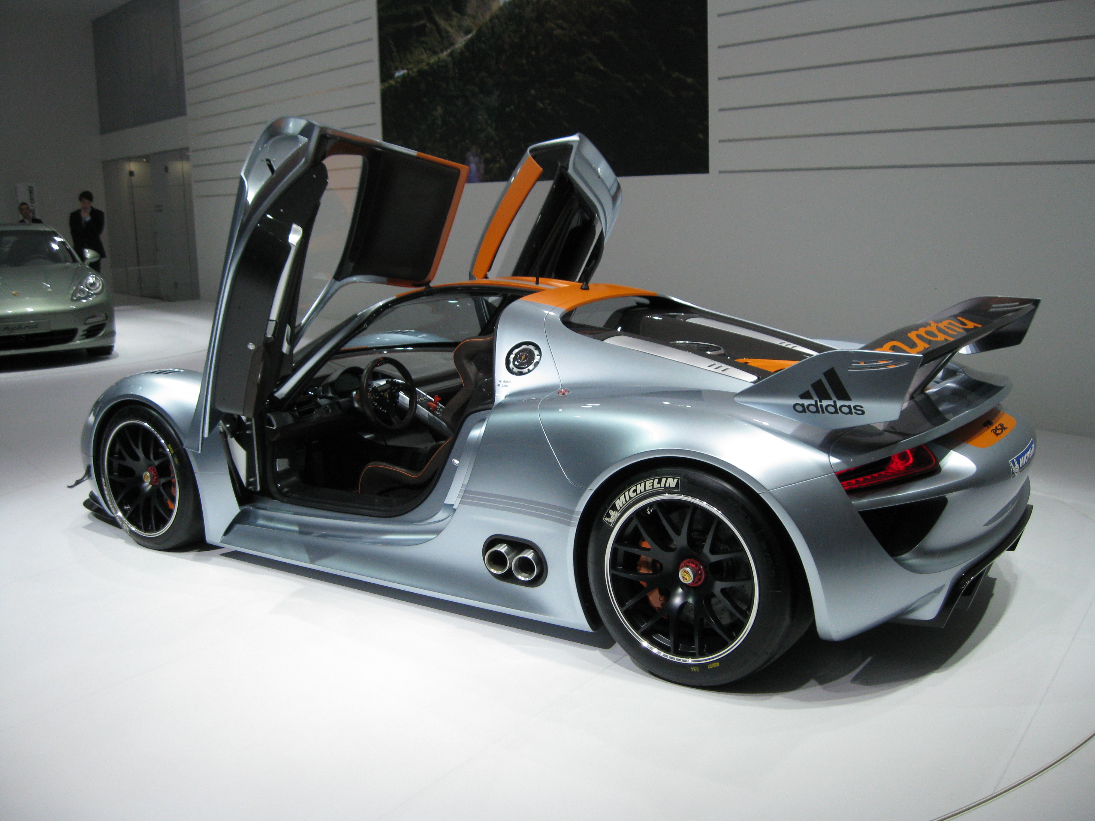 Geneva Motor Show 2011